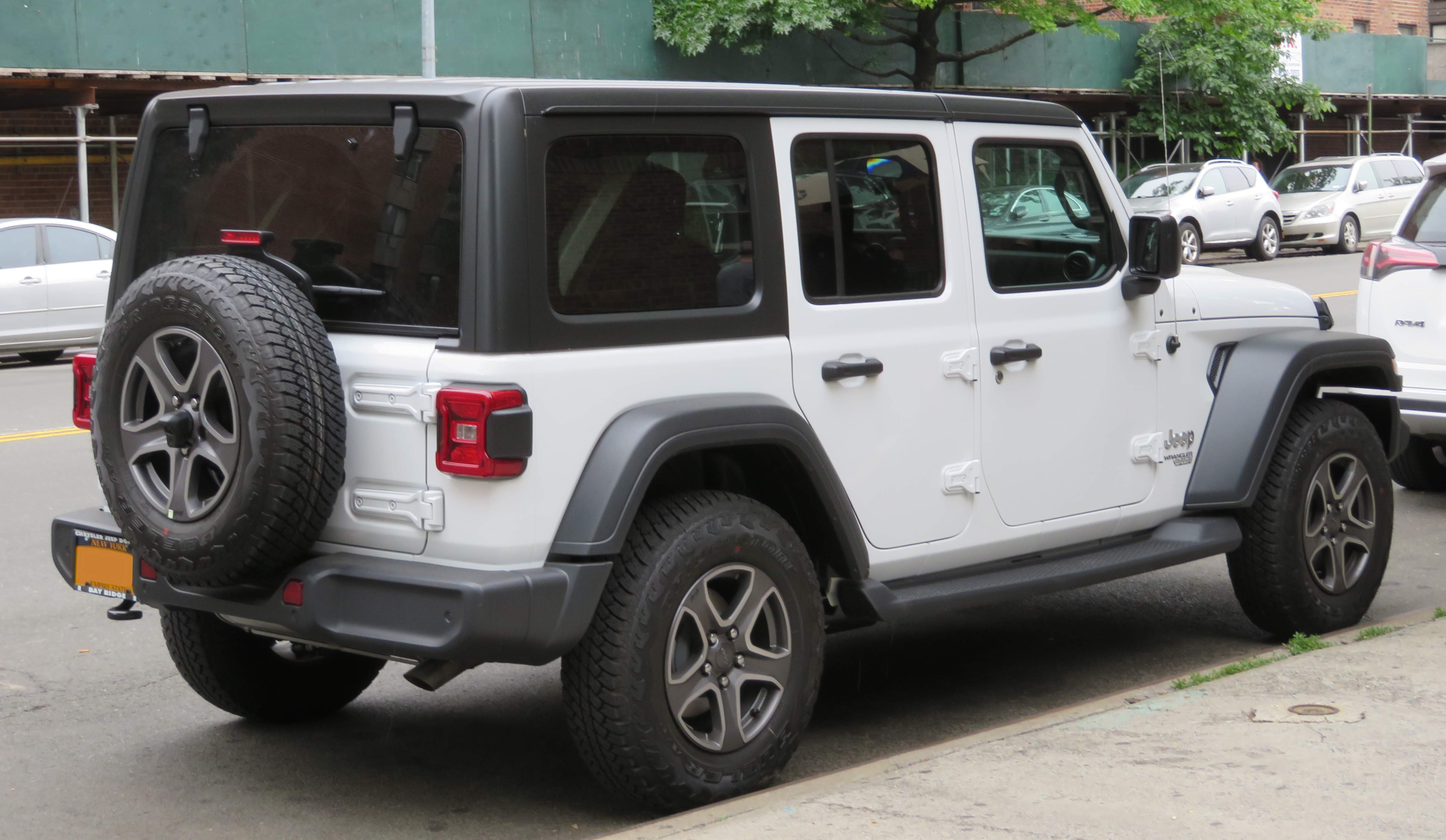 Photographed in Flushing(Queens), New York.